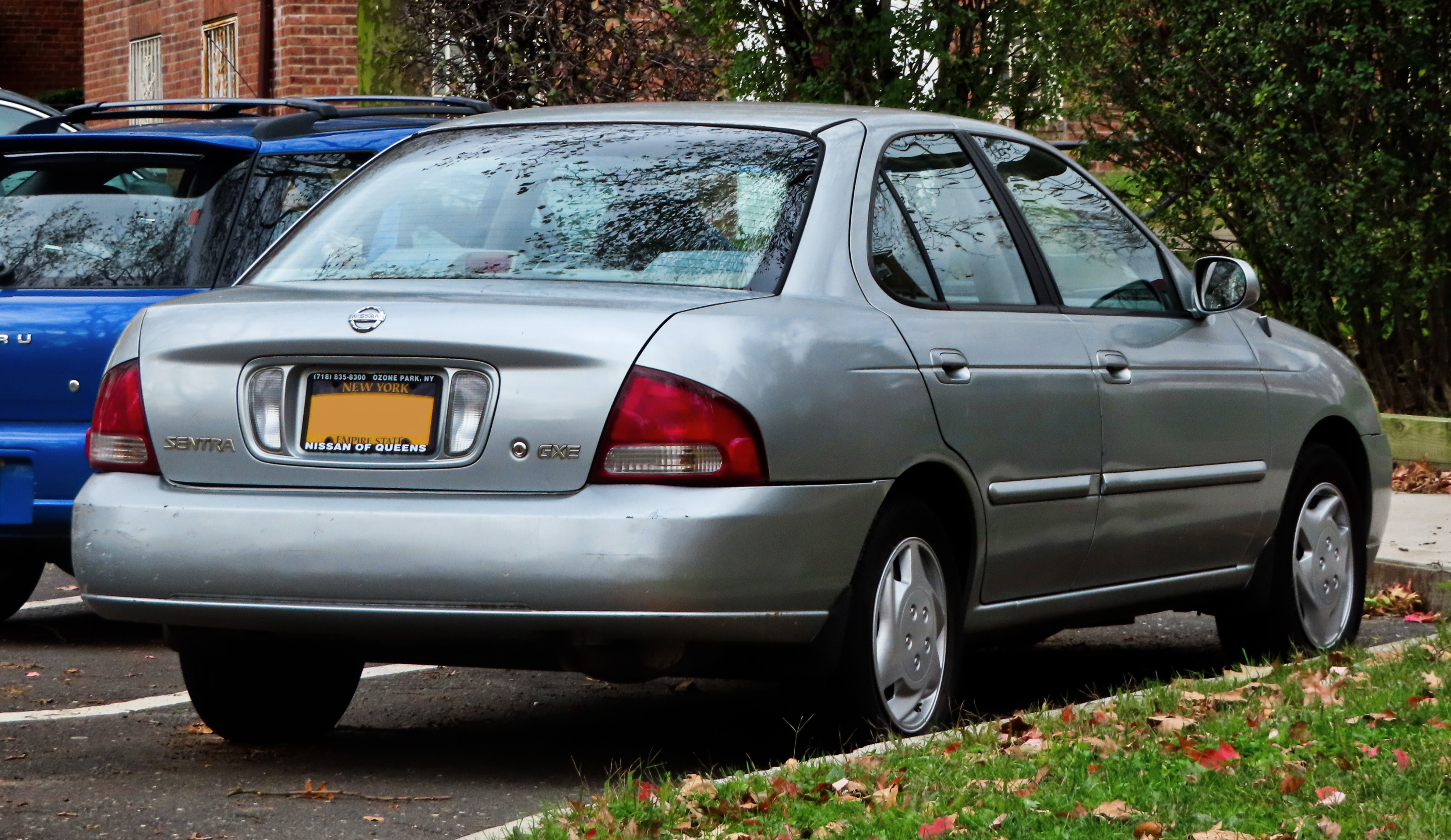 A 2020 Ford Explorer XLT photographed in Kew Gardens Hills, Queens, New York, USA